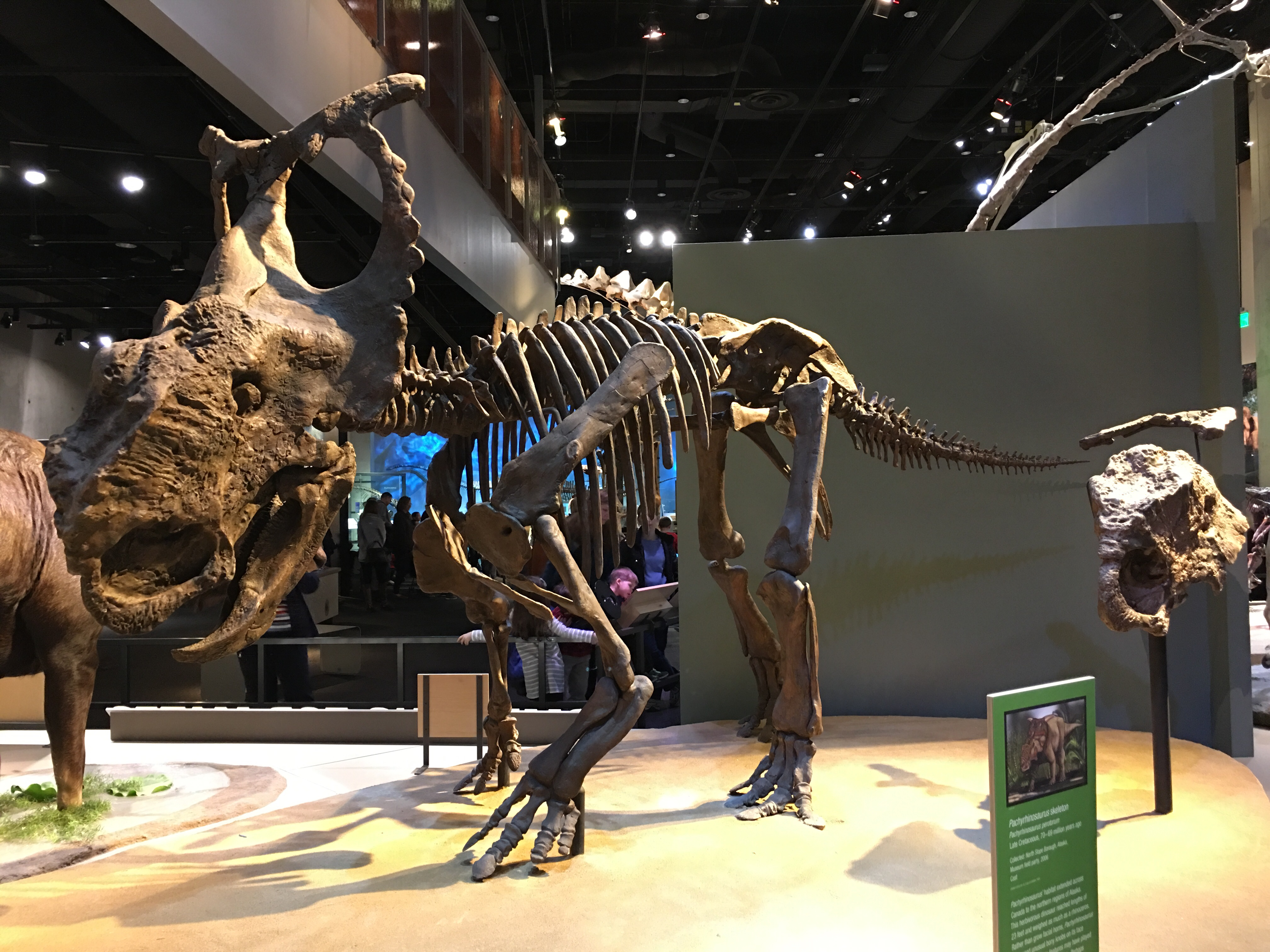 佩洛特自然科学博物館, 達拉斯, 德克薩斯州, 德州, 美國, 美利堅合眾國, Perot Museum of Nature and Science, Perot Museum, Dallas, Texas, Tejas, United States of America, United States, America, The States, USA, US